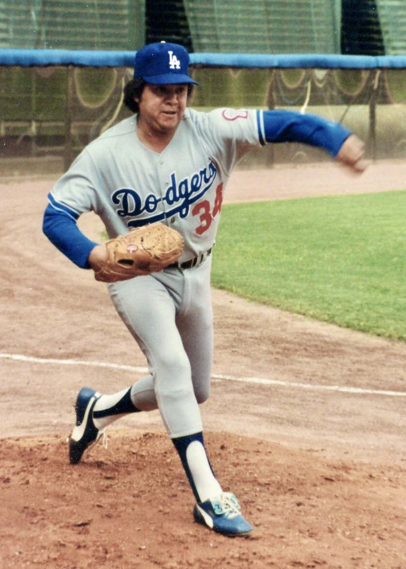 Former Los Angeles Dodgers pitcher Fernando Valenzuela.